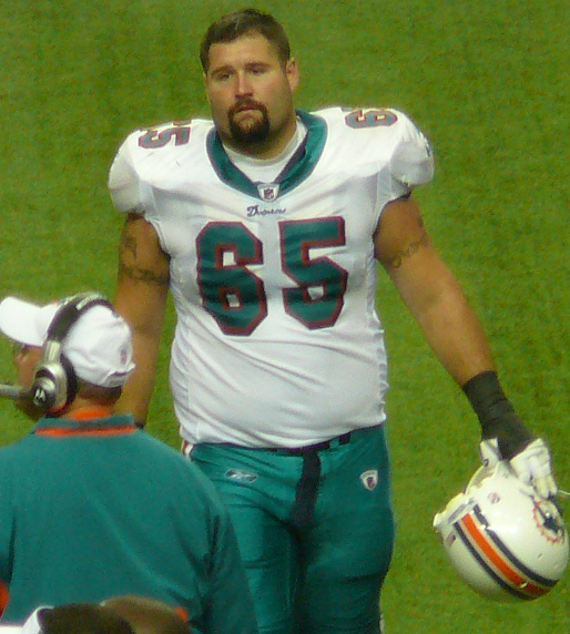 If used somewhere other than Wikipedia, Nelson, by name.